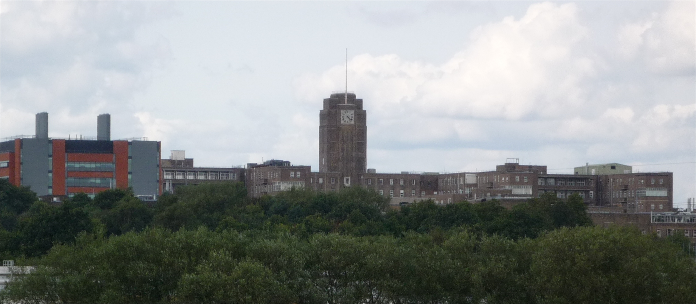 The Queen Elizabeth Hospital (right). To be replaced by the nearby Birmingham Super Hospital under construction (2008). View of the southern face.